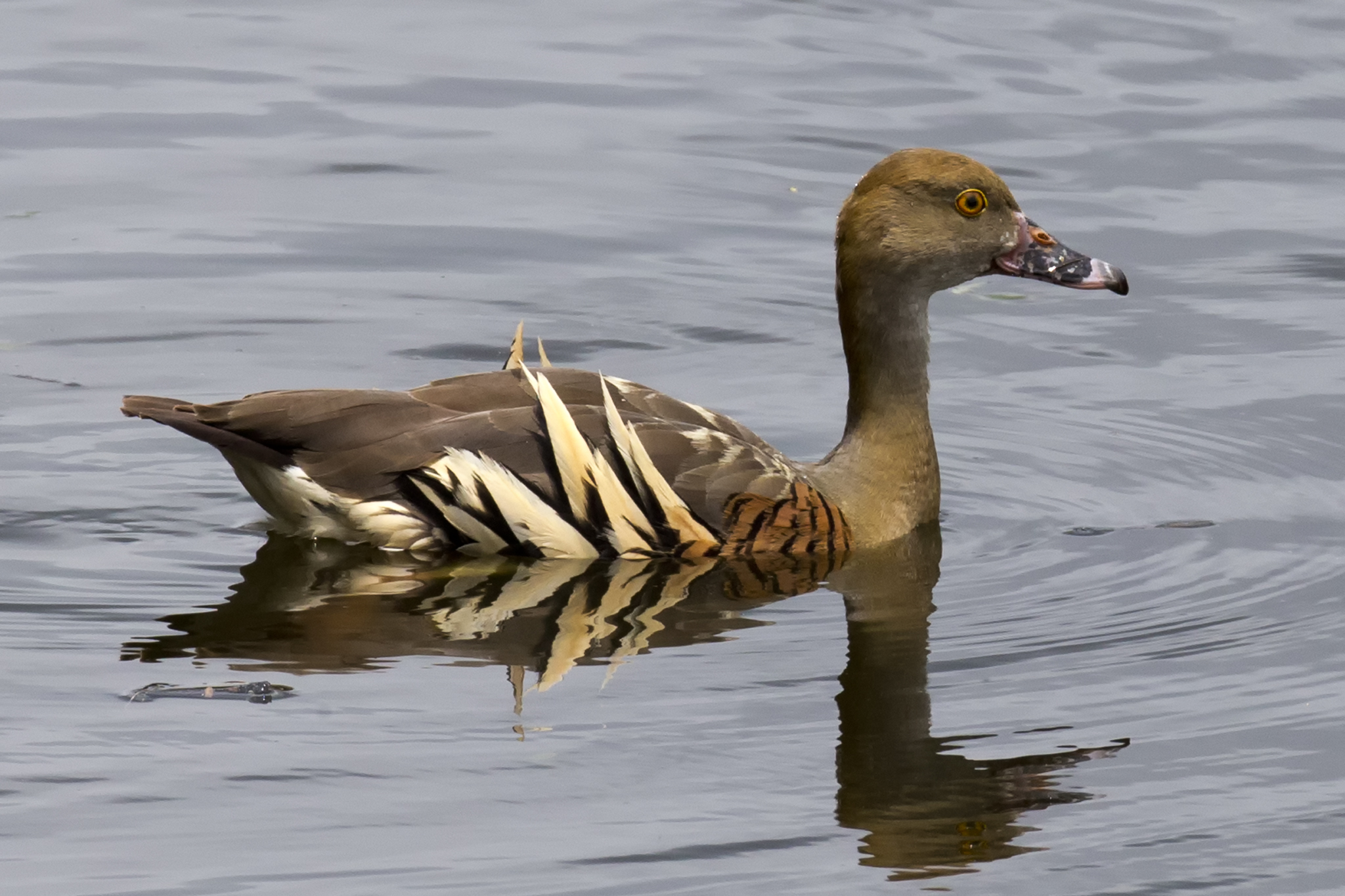 out and about